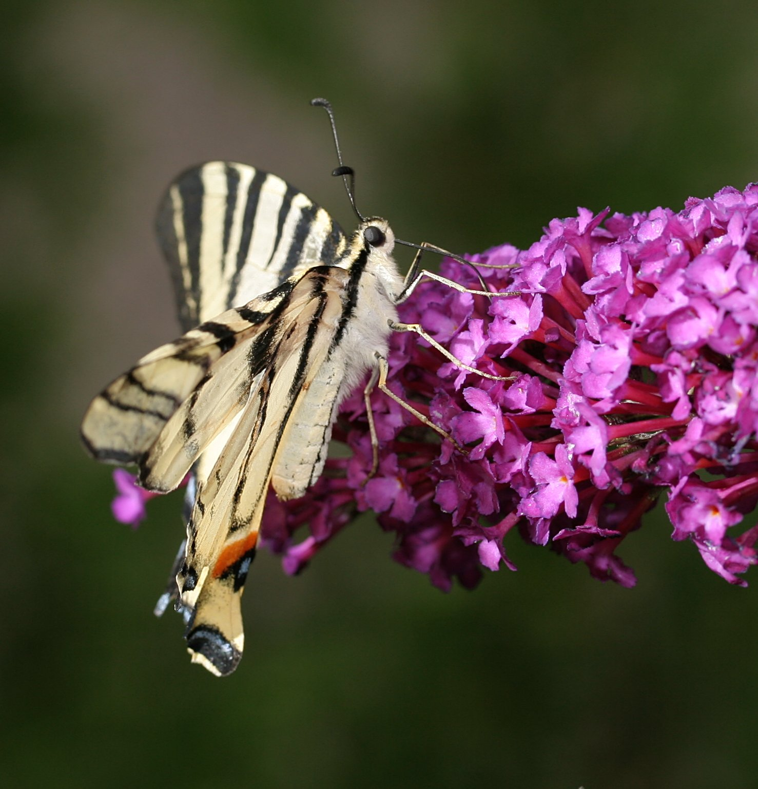 Iphiclides podalirius is feeding itself